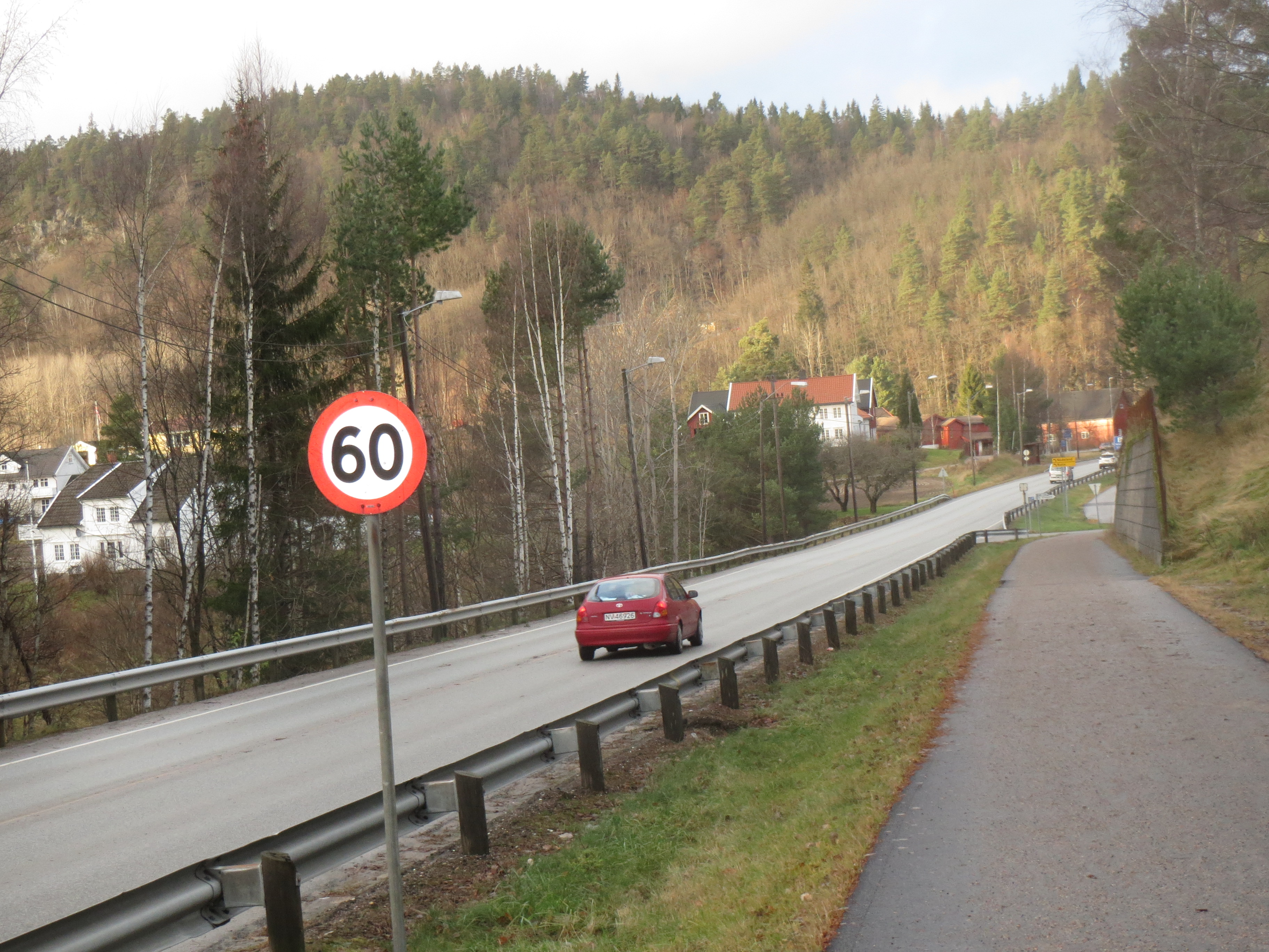 Torridal valley in Kristiansand, Norway, by Norwegian National Road 9.